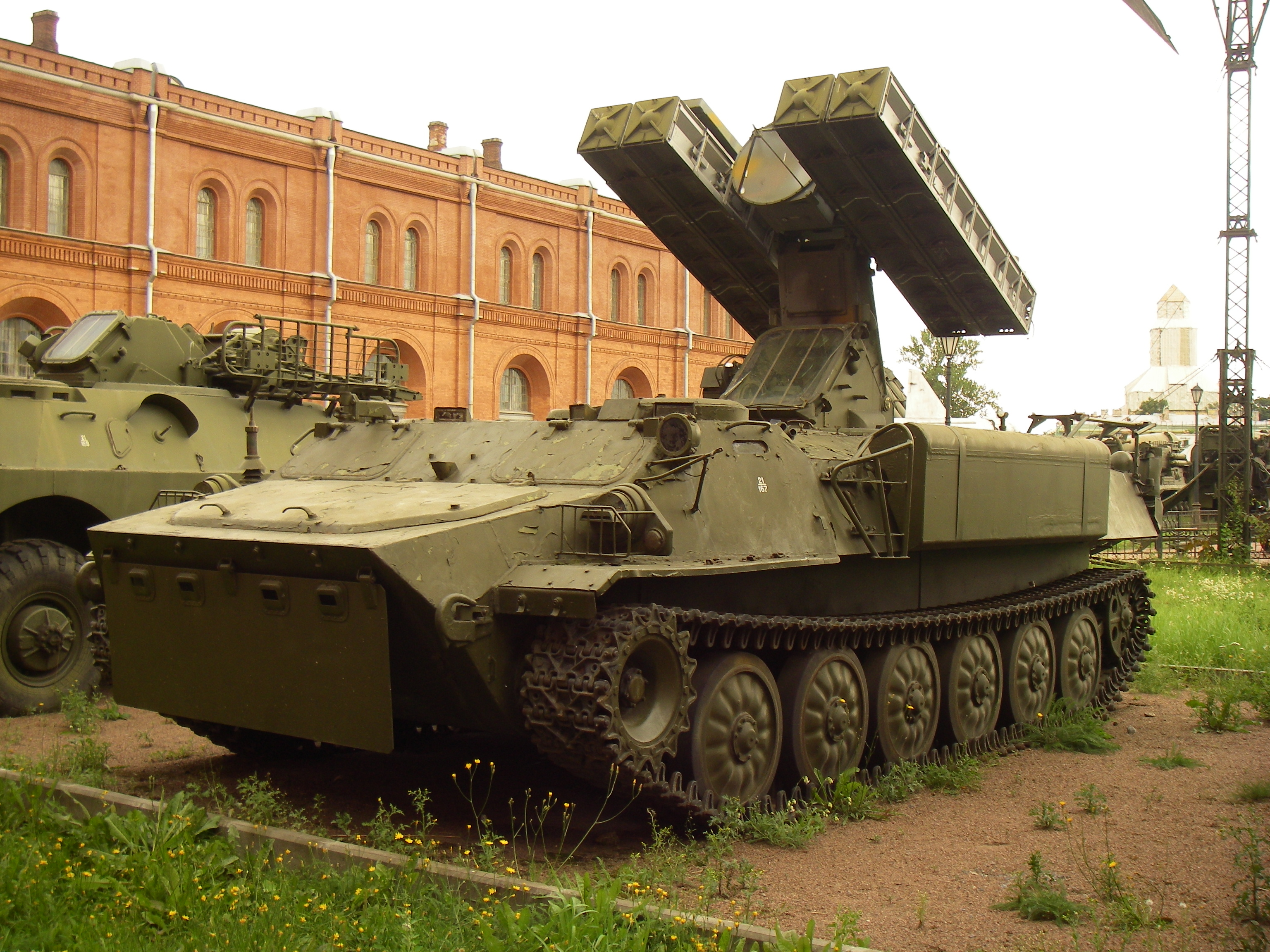 9A35 Transporter-Erector-Launcher with four 9M37 missiles of surface to air missile complex 9K35 «Strela-10» in Saint-Petersburg Artillery museum